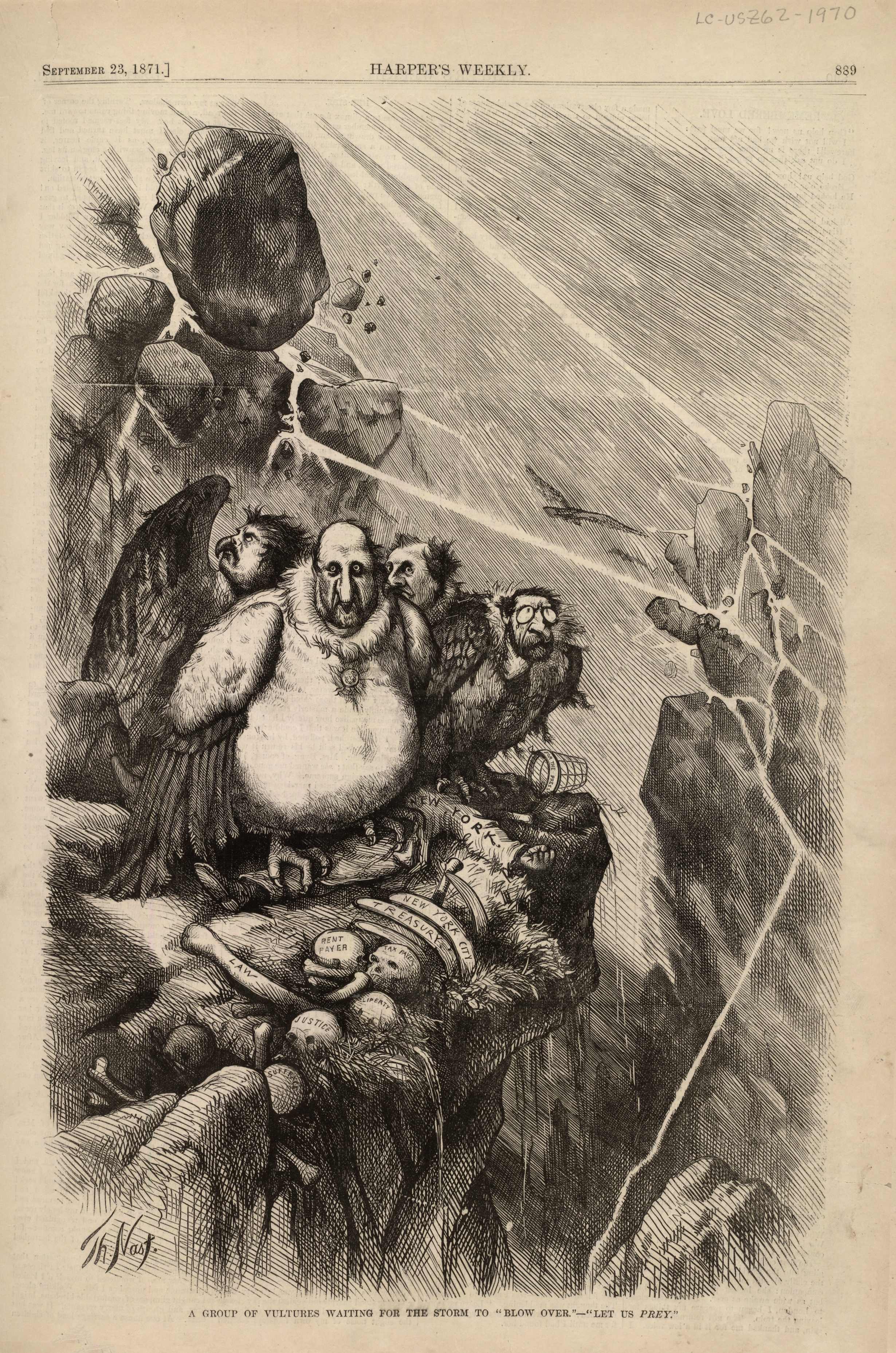 Thomas Nast caricature of Boss Tweed in Harper's Weekly, September 23, 1871 Title: A group of vultures waiting for the storm to "Blow Over" - "Let Us Prey" Creator(s): Nast, Thomas, 1840-1902, artist Date Created/Published: 1871 September 23. Medium: 1 print : wood engraving. Summary: Illustration shows William "Boss" Tweed and members of his ring, Peter B. Sweeny, Richard B. Connolly, and A. Oakey Hall, weathering a violent storm on a ledge with the picked-over remains of New York City.